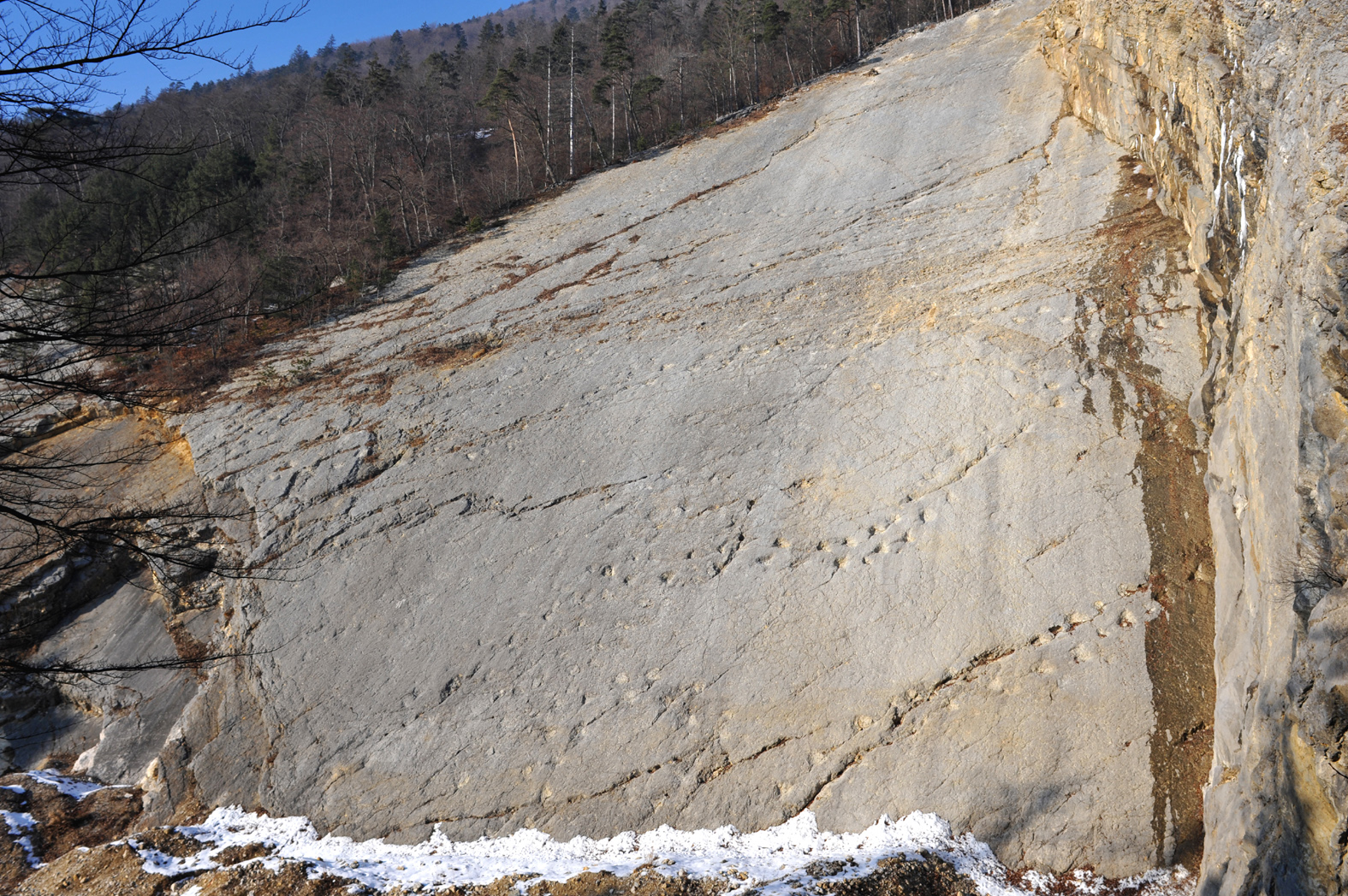 Brachiosaur tracks in a stone quarry; Oberdorf/Lommiswil, Solothurn, Switzerland.